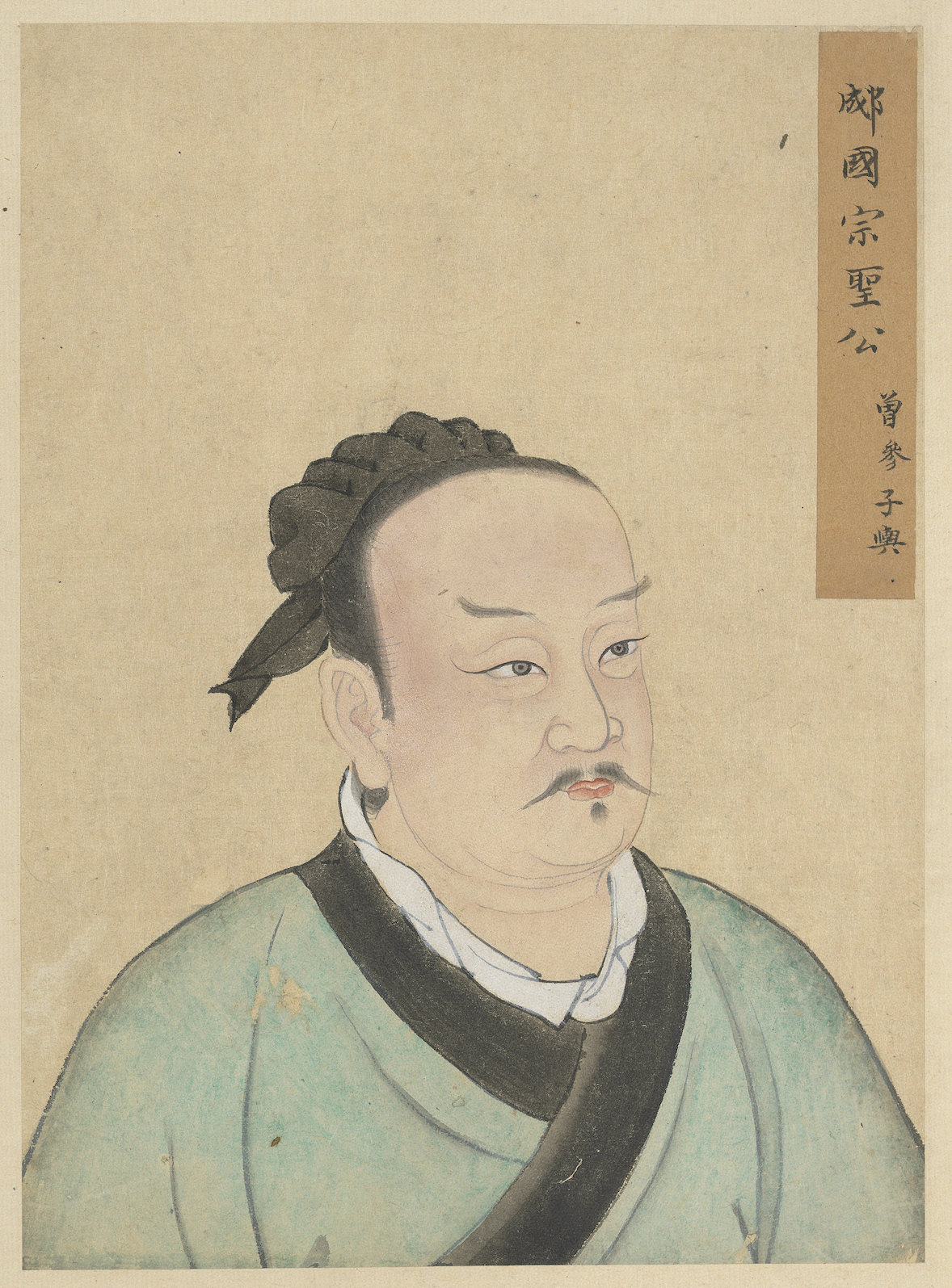 This depicts Zeng Shen (曾參), styled Ziyu (子輿).